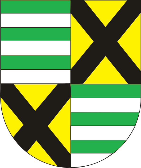 coats of arms of the lords of Fleckenstein-Dagstuhl